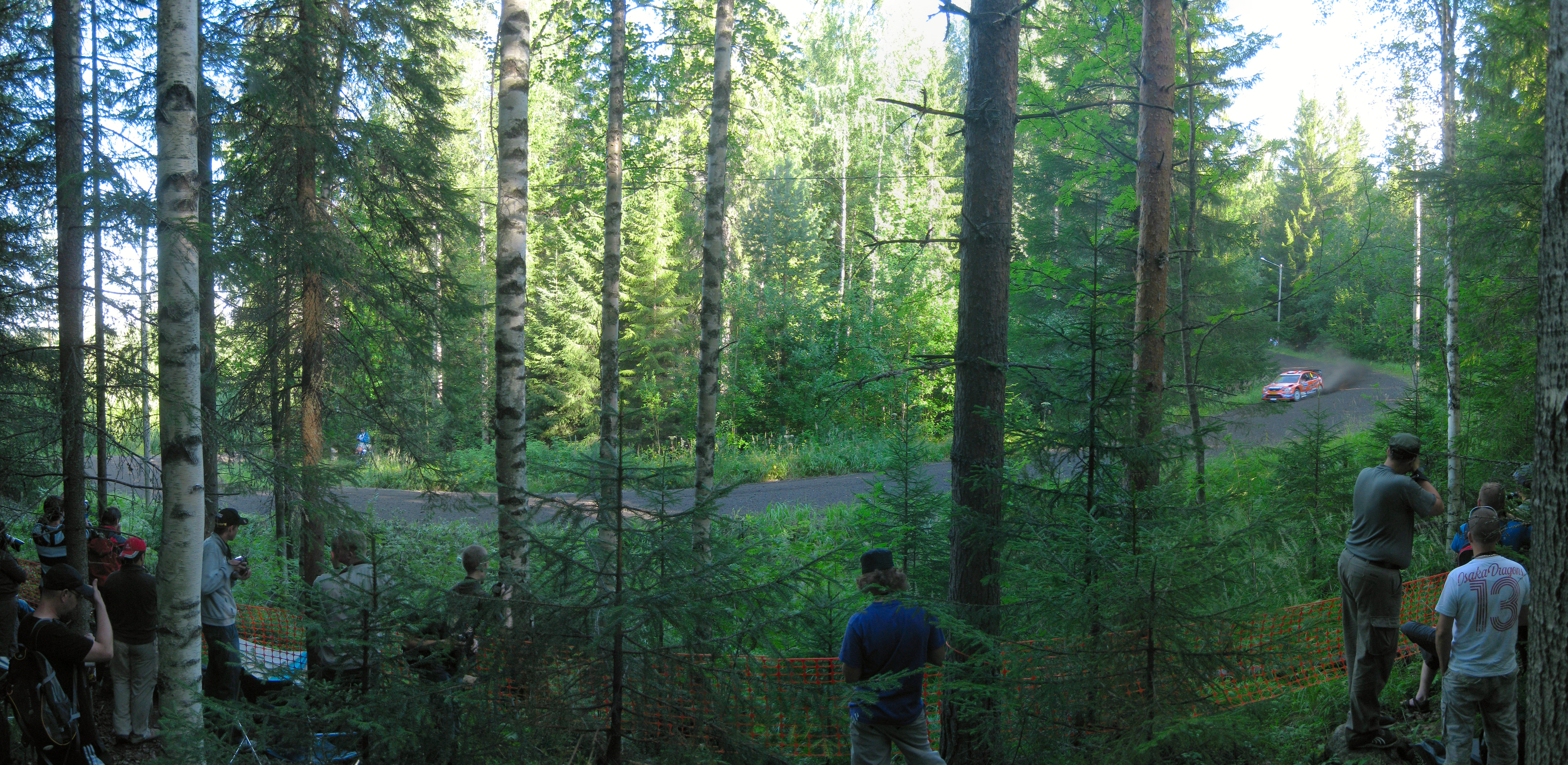 A panorama from the Shakedown of Rally Finland 2009.